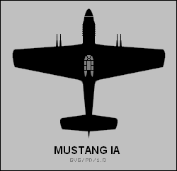 Top-view silhouettes of North American Mustang IA.